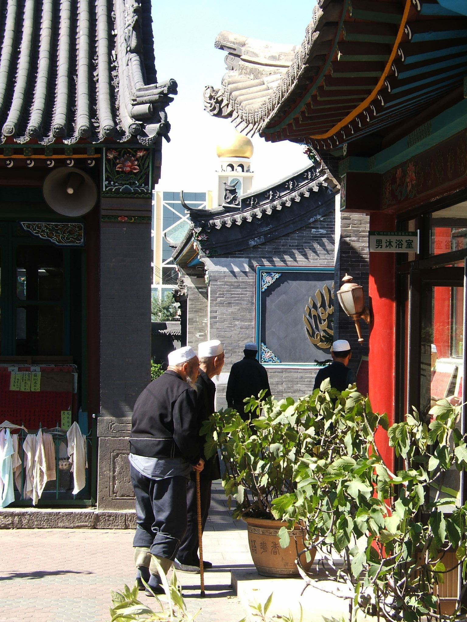 Early morning at a Mosque, Hohhot, Inner Mongolia, China